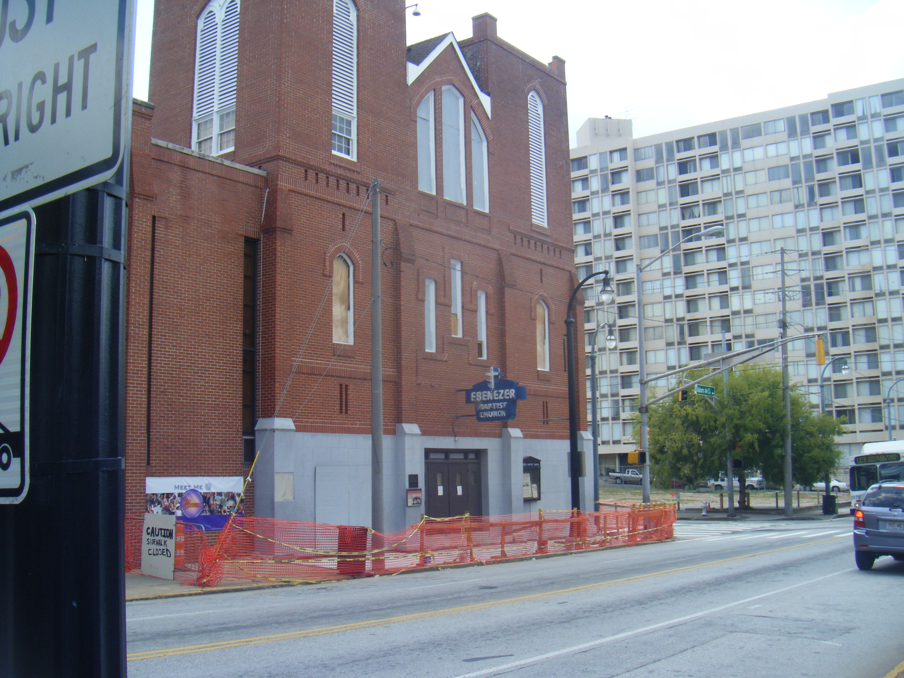 Under construction. Taken August 2009.